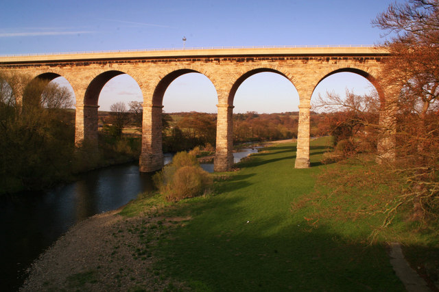 Newton Cap Viaduct, Bishop Auckland